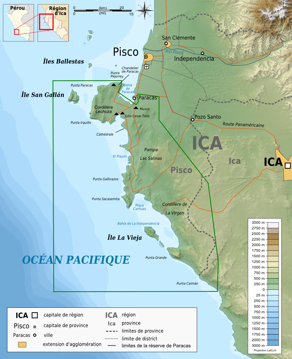 Topographic map in French of the Paracas National Reservation